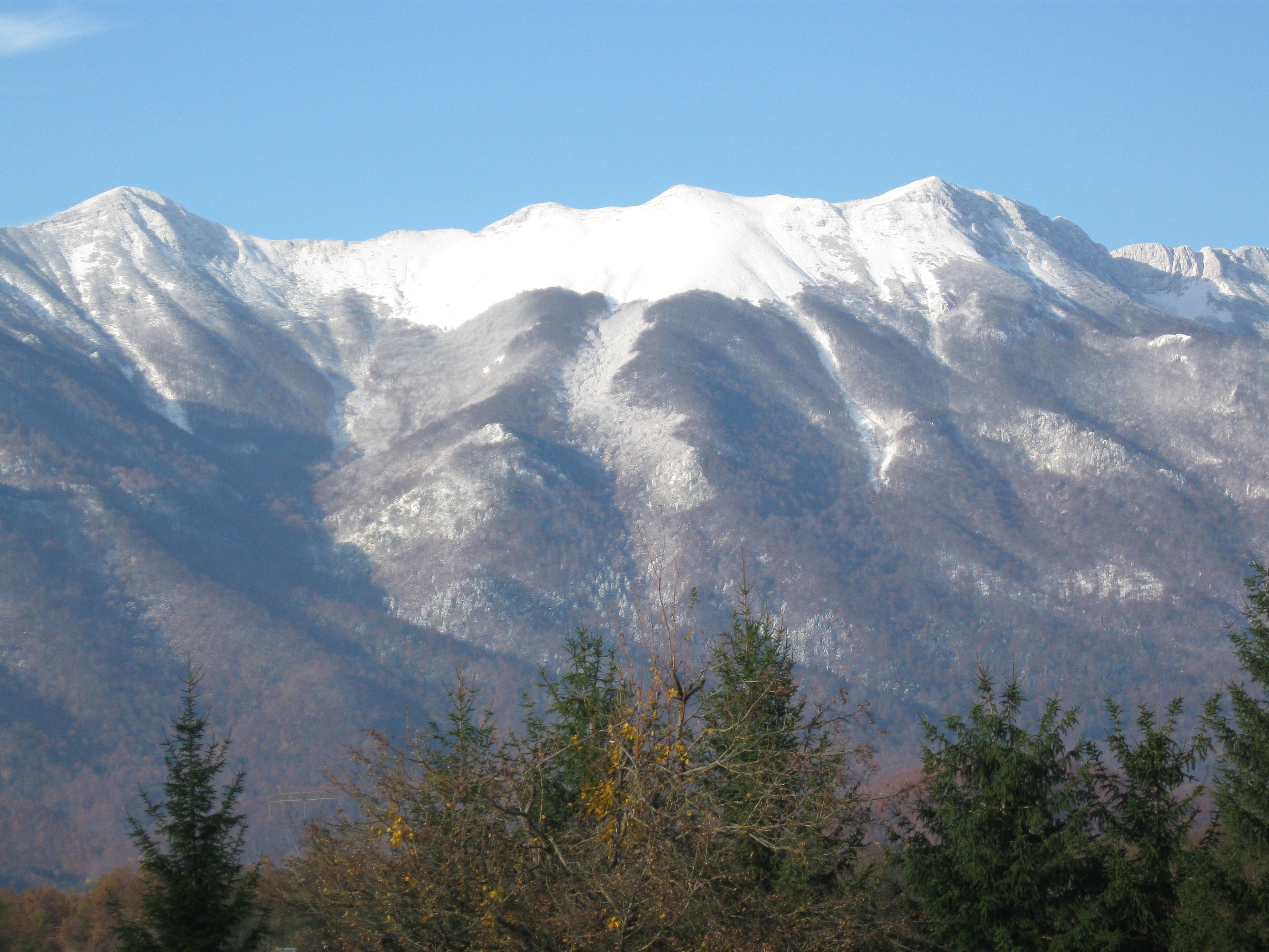 The back side of the Velebit Mountain.